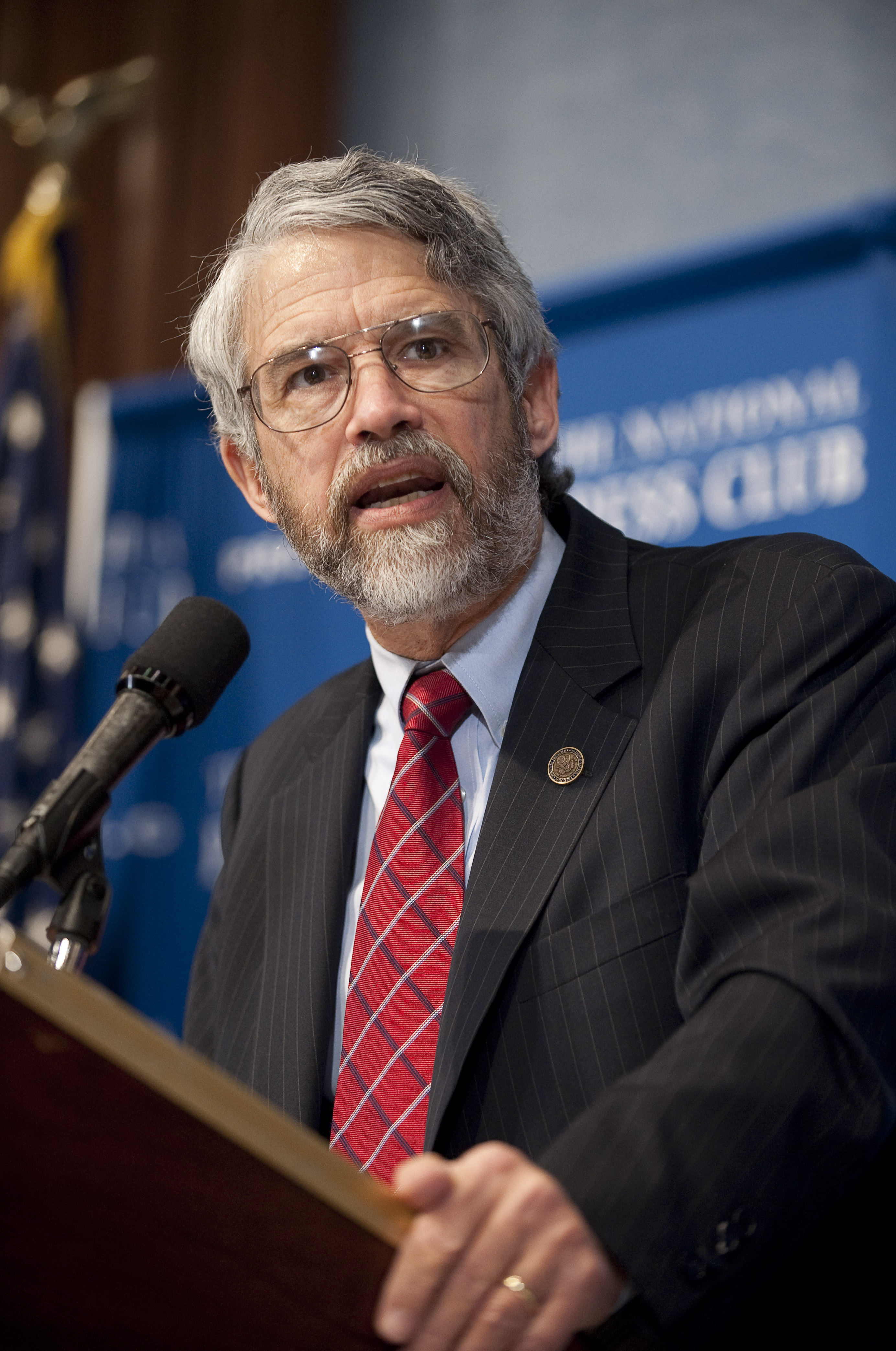 Assistant to the United States President for Science and Technology and Director of the White House Office of Science and Technology Policy Dr. John P. Holdren speaks during a press conference, on Tuesday, 2 February 2010, at the National Press Club in Washington DC, where it was announced that NASA had awarded $50 million through funded agreements to further the commercial sector's capability to support transport of crew to and from low earth orbit.